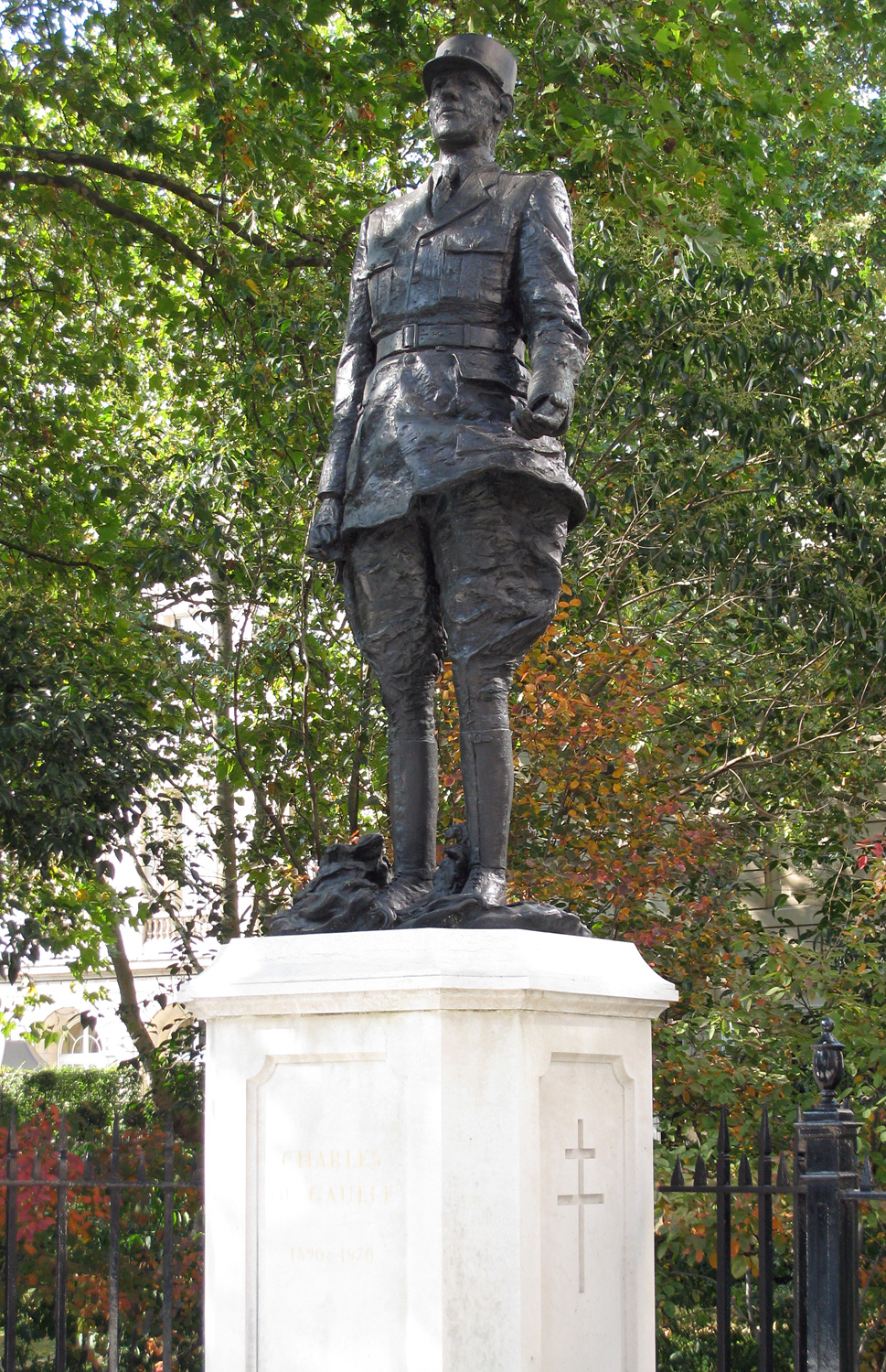 Statue of Charles de Gaulle outside 4 Carlton Gardens, his wartime headquarters in London.